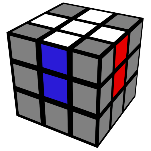 CFOP cross